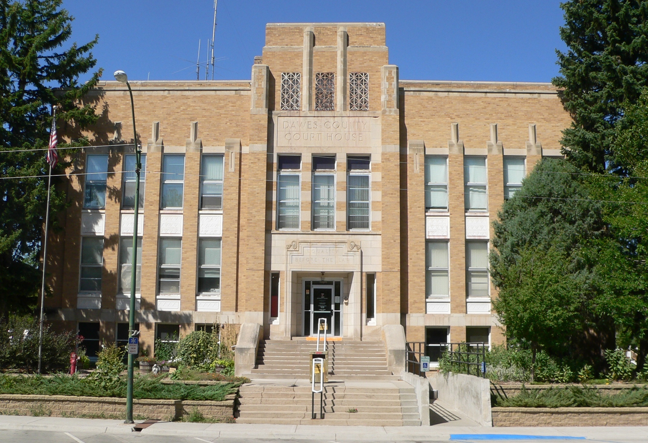 Dawes County Courthouse in Chadron, Nebraska; seen from the east. The Art Deco building was constructed in 1936. It is listed in the National Register of Historic Places.